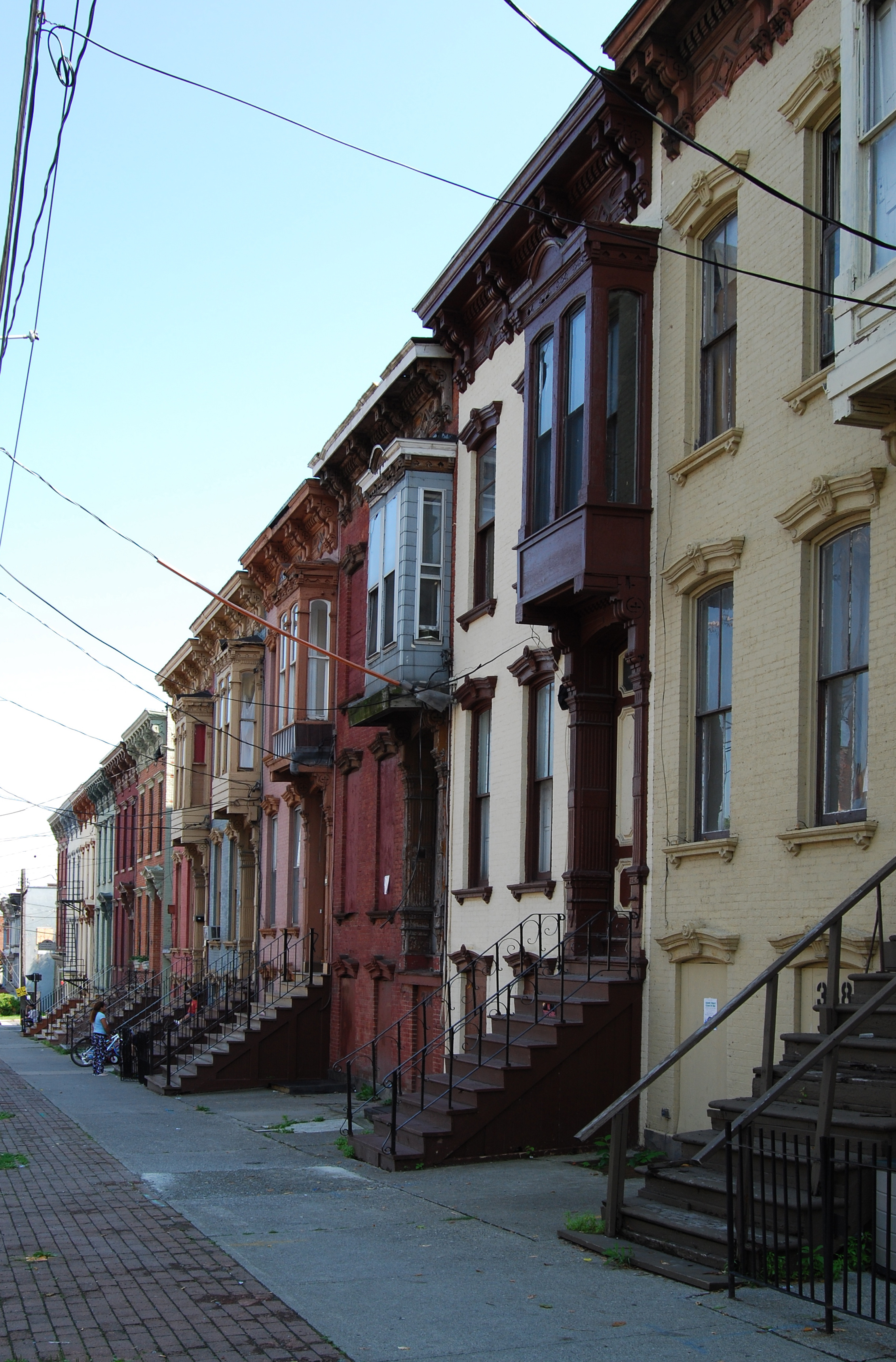 Urban blight (rowhouse with boarded windows and no stoop) at 316 Clinton Avenue in Albany, New York, United States, part of the Clinton Avenue Historic District